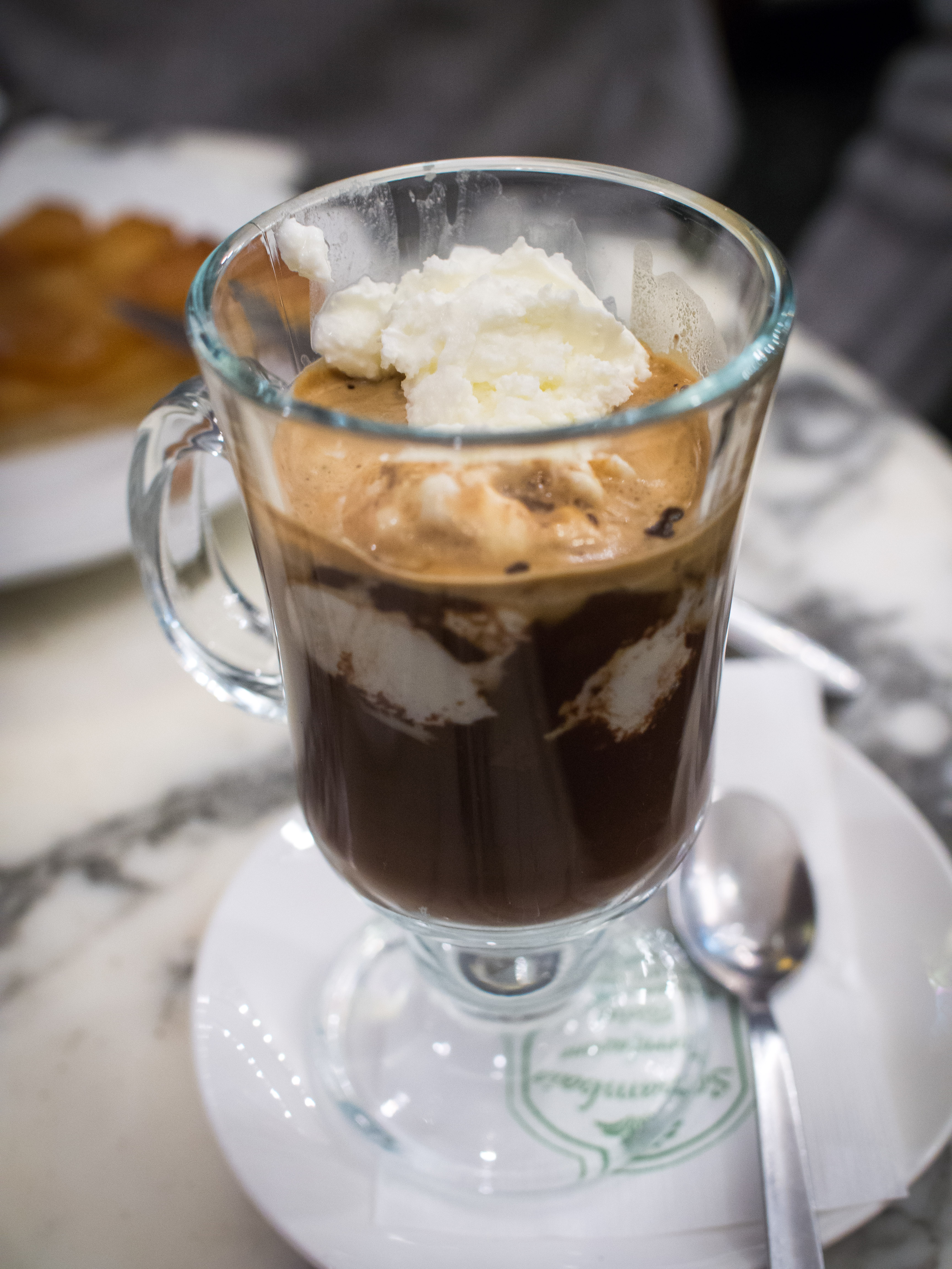 A variant of "Bicerin": a hot drink made with chocolate, espresso, and whipped cream; from Turin.